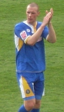 James Constable, photograph taken by 03x072 on April 26, 2008. To be added to James Constable.